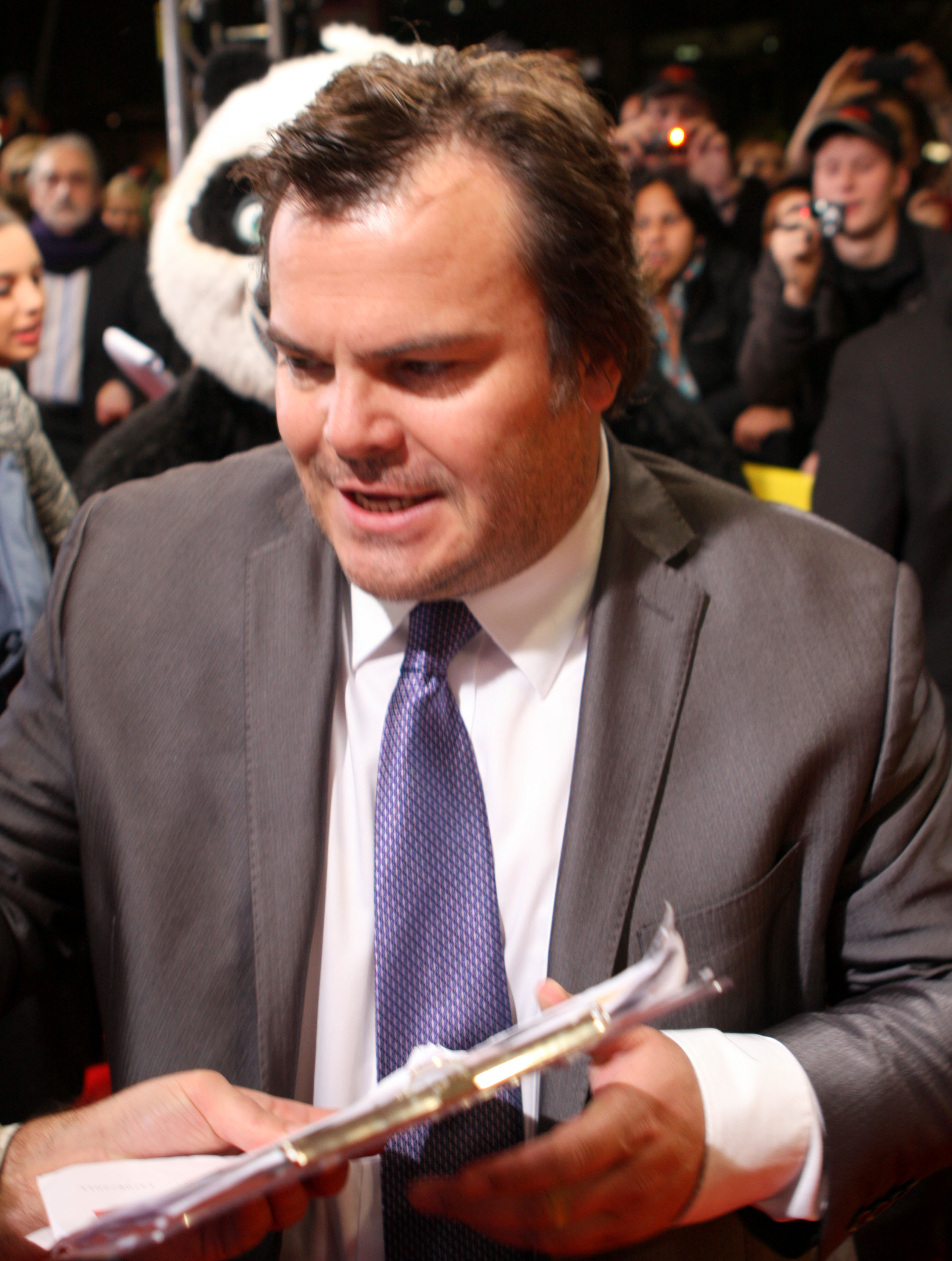 Jack Black at the Kung Fu Panda 2 Premiere 2011.